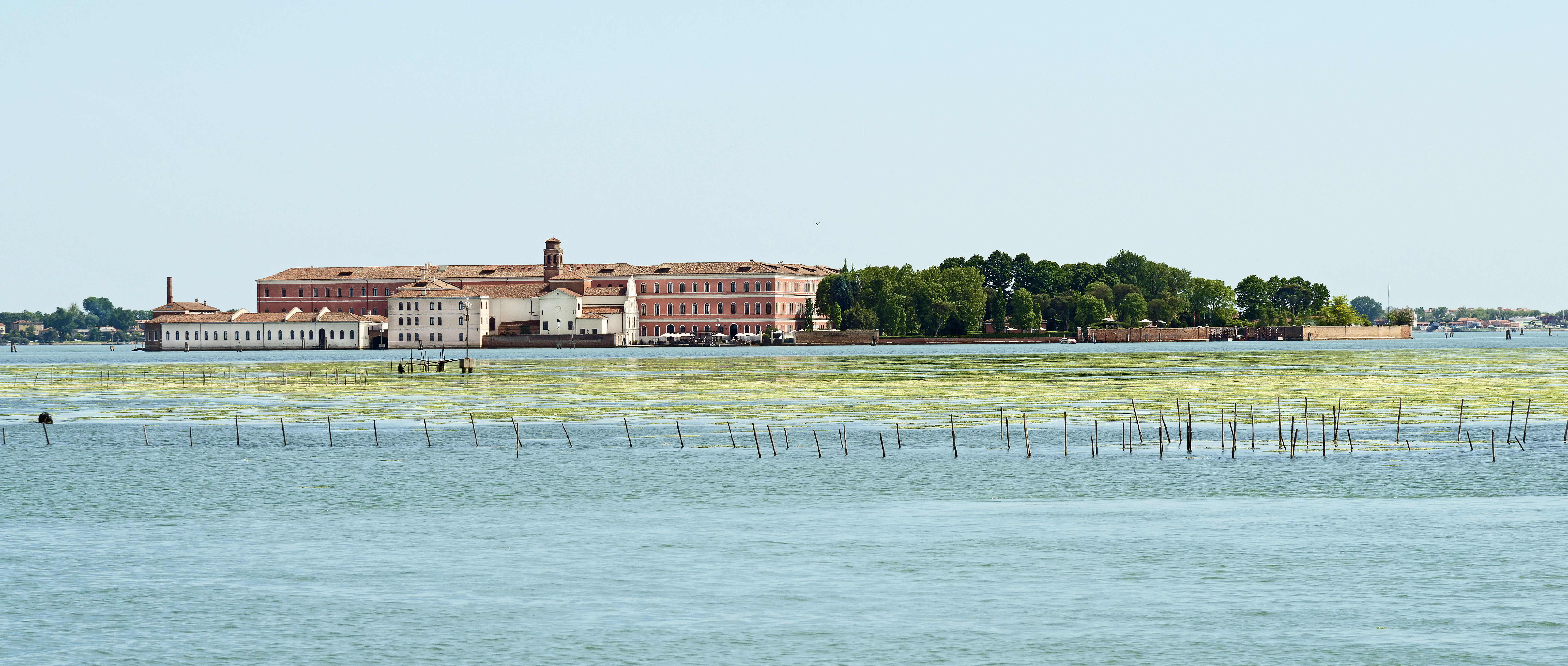 San Clemente Venice lagoon - View from the Giudecca